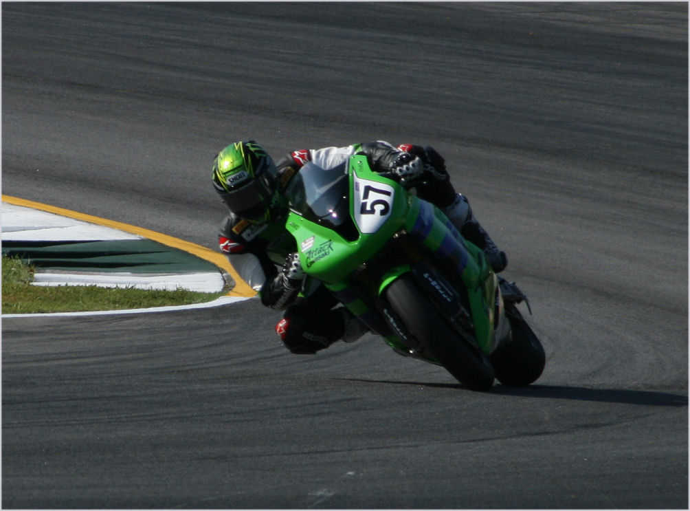 Chaz Davies, British motorcycle racer, at the AMA Superbike Championship at Road Atlanta. Taken from the spectator seating area overlooking turns 10a & 10b.